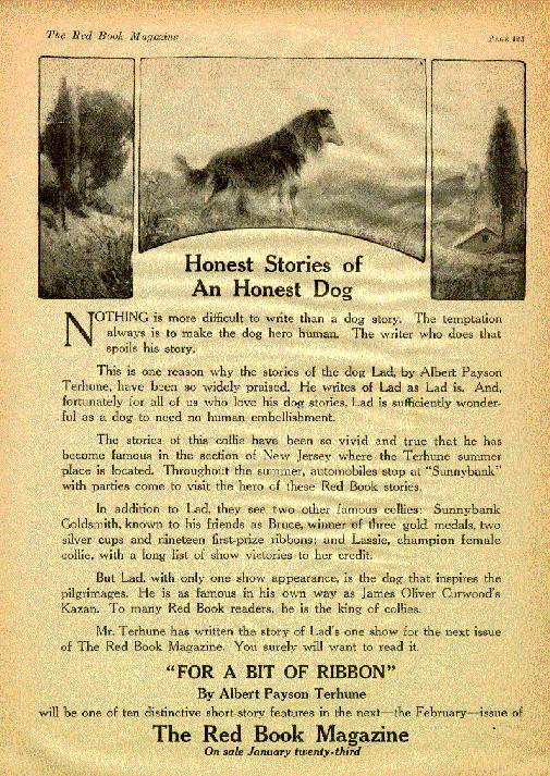 An advertisement in Red Book Magazine (Jan 1918, p. 123, New York: Hearst Corporation) for one of Albert Payson Terhune's short stories on Lad, his Rough Collie